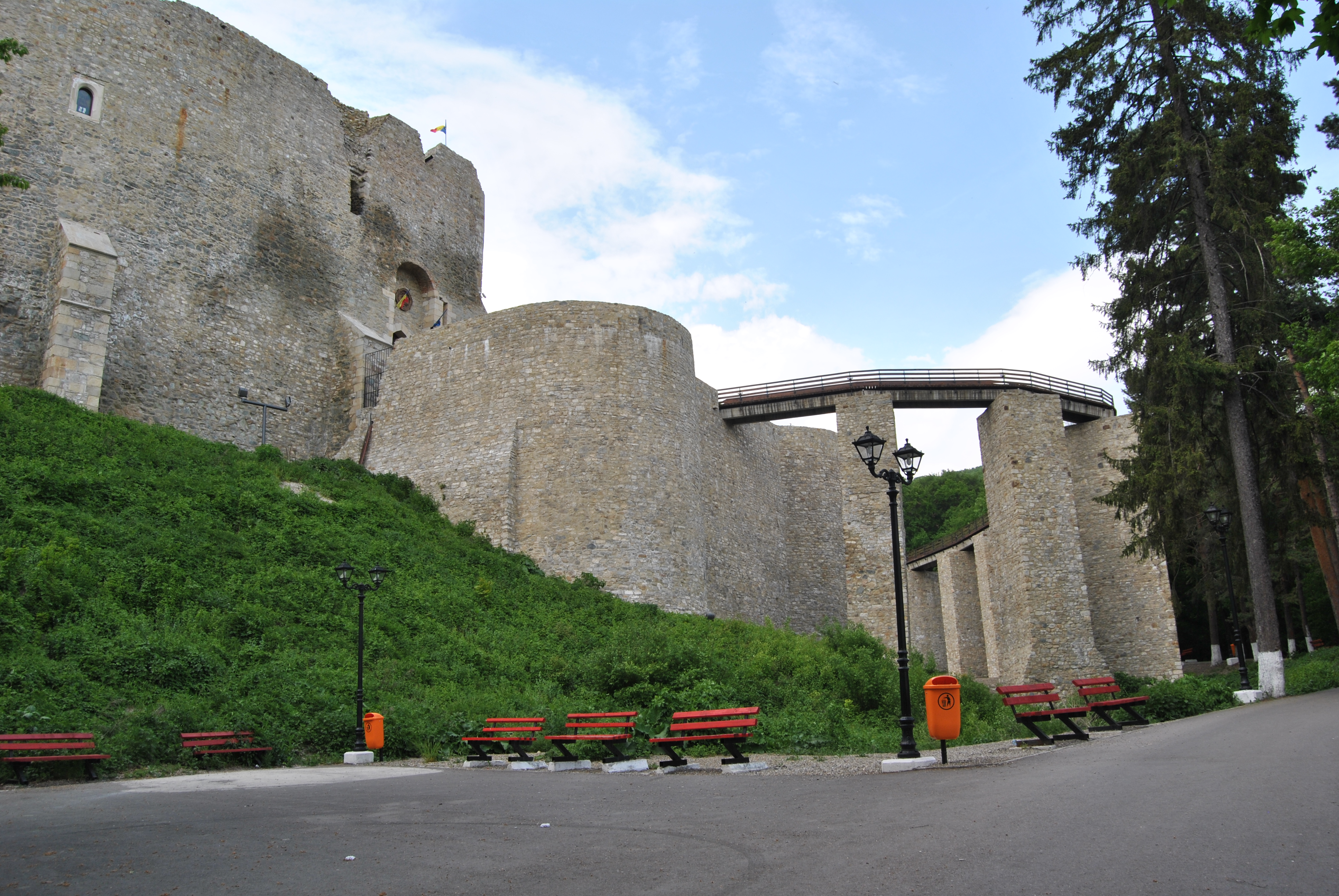 Neamt Citadel general view / access ramp